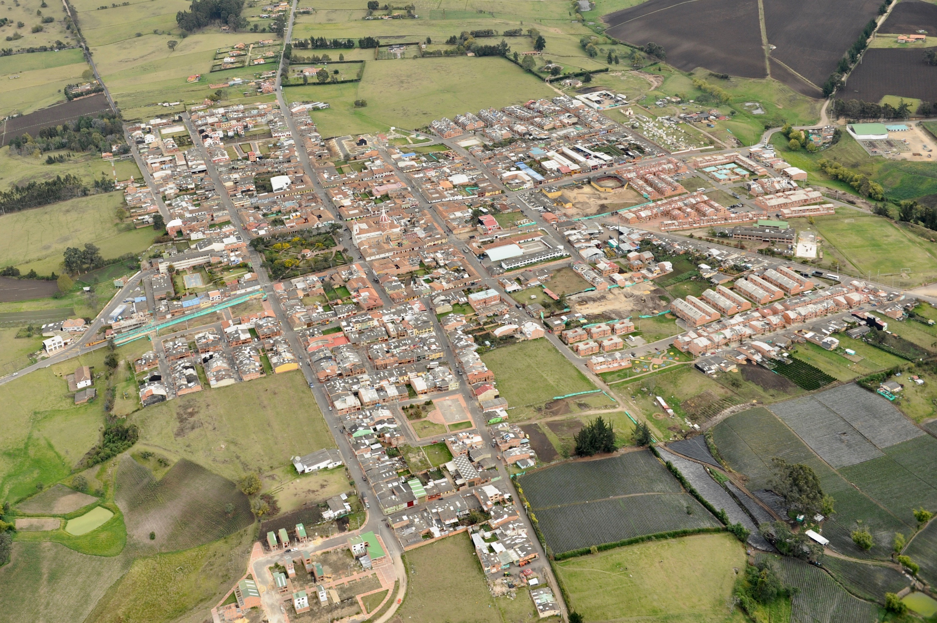 Aerial view of Subachoque